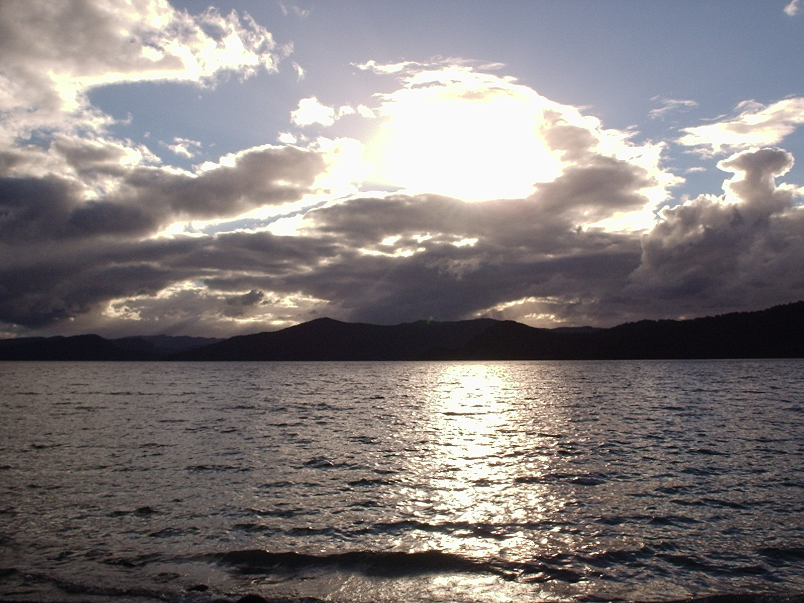 Lake Waikaremoana, New Zealand During sunset. Taken by user.